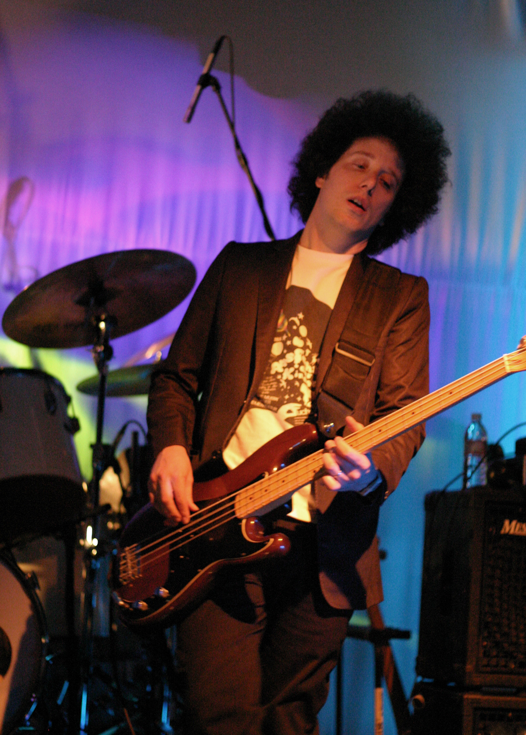 American bassist Justin Meldal-Johnsen at The Echoplex, Los Angeles, CA